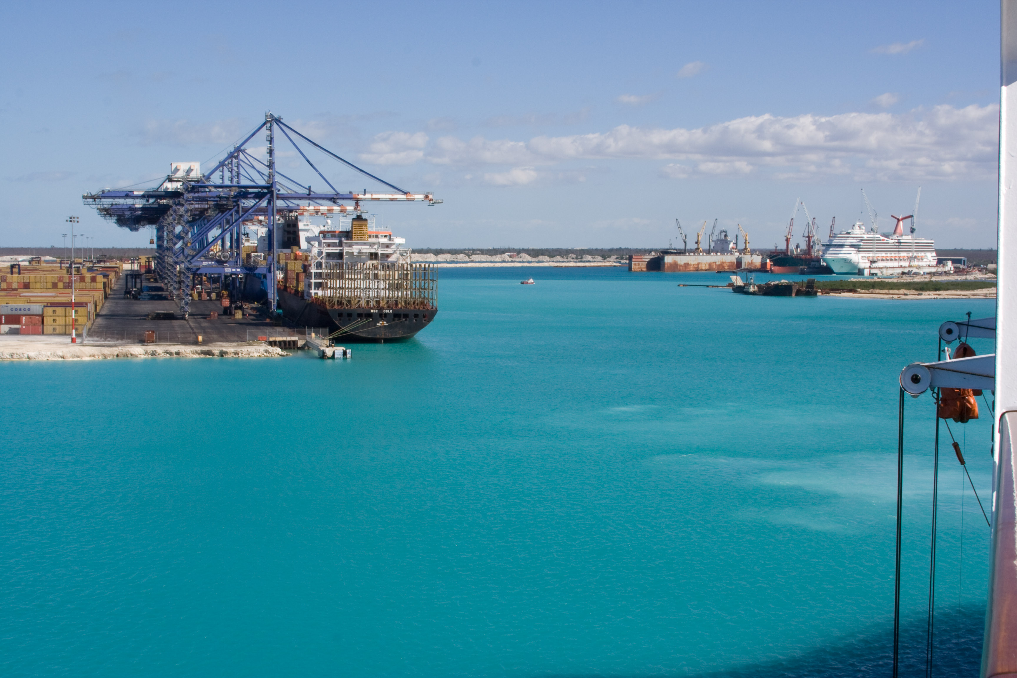 Container ship MSC Oslo in Freeport, Bahamas. A Conquest-class cruise ship is in the Grand Bahama Shipyard in the background.